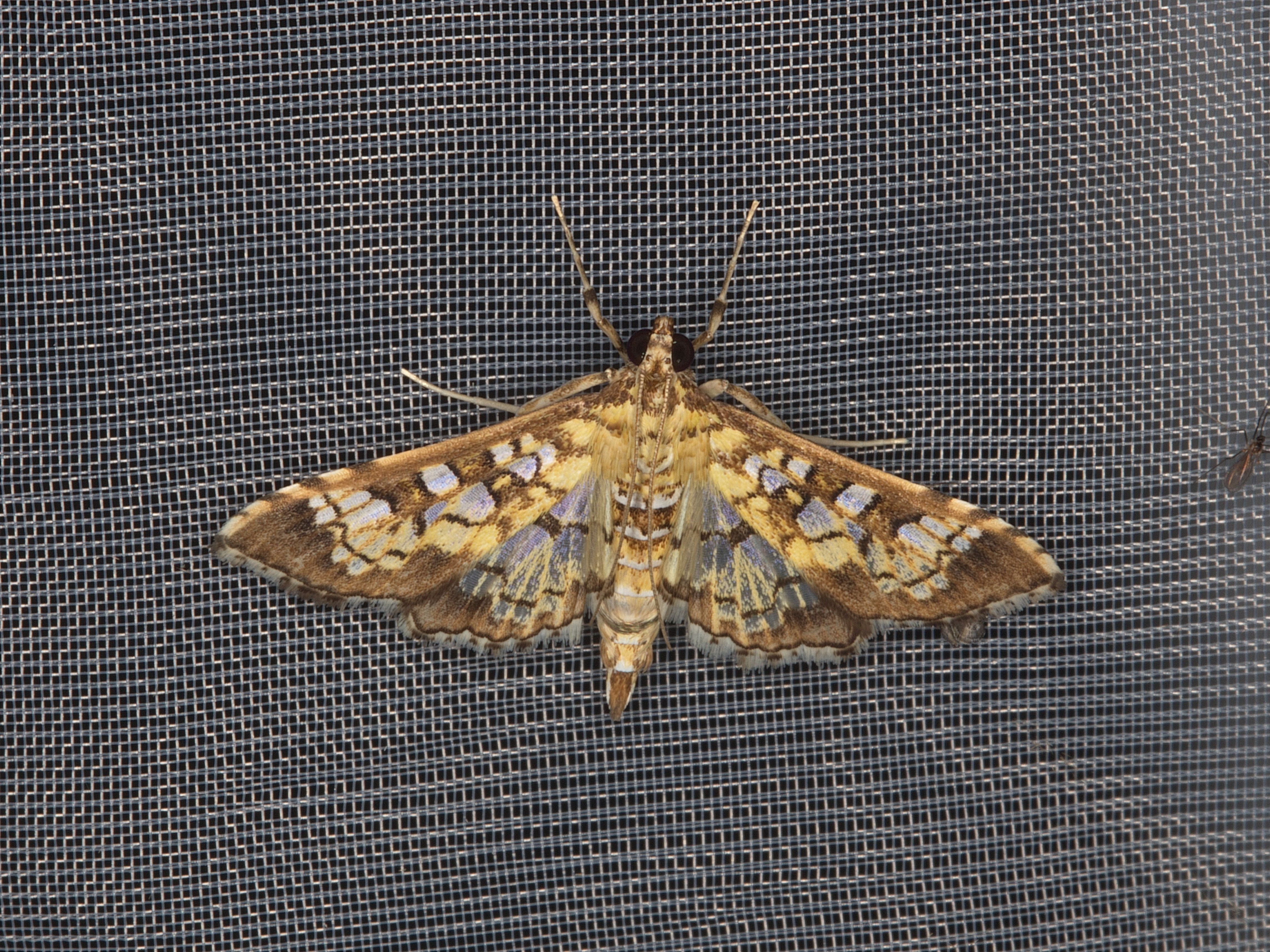 Samea ecclesialis Guenée, 1854, to actinic light and LepiLED, Natural Area Teaching Laboratory, University of Florida, Gainesville, Florida, 3 October 2018